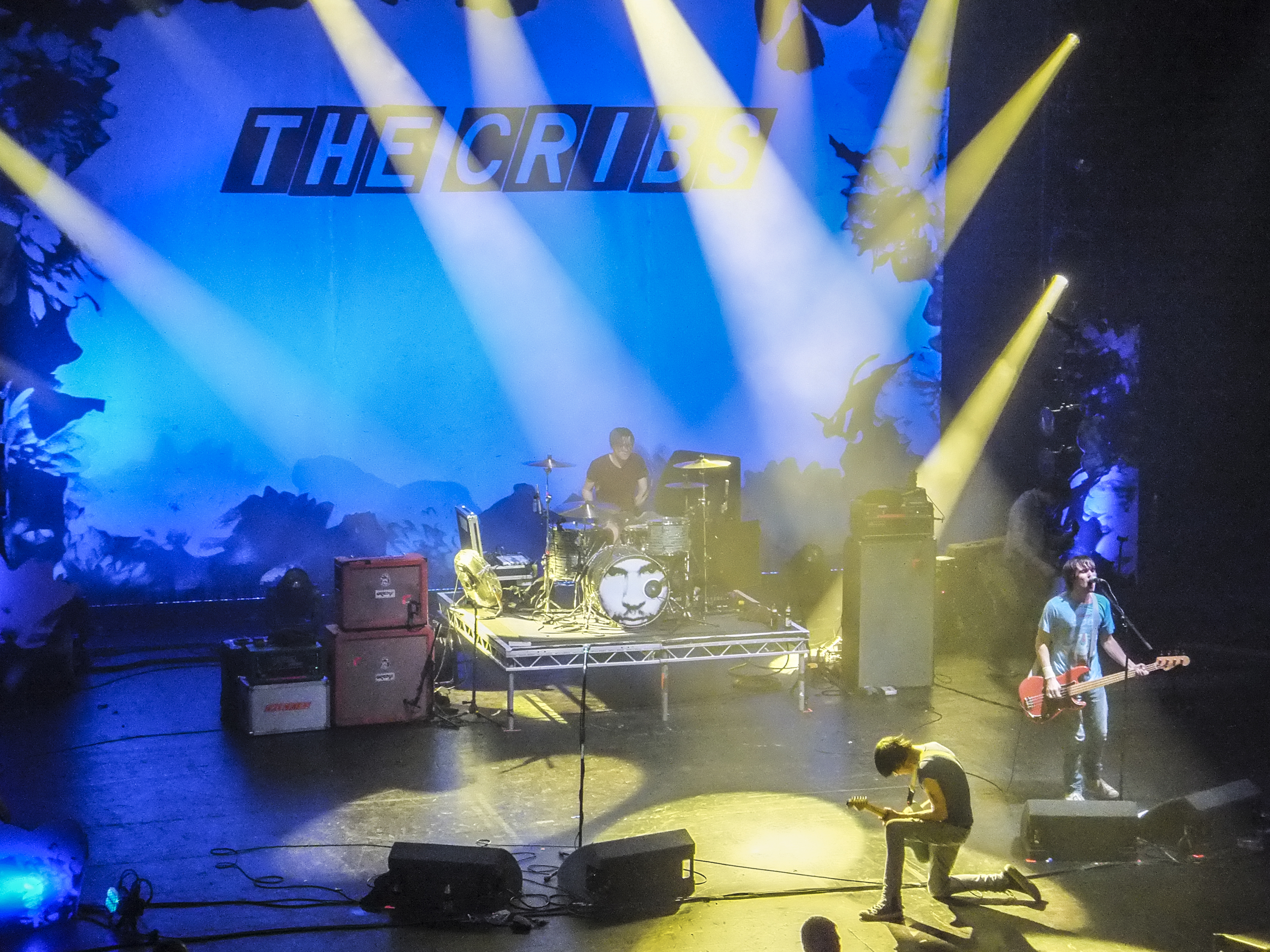 The Cribs, live at the Apollo Theater, Manchester, October 26 2012